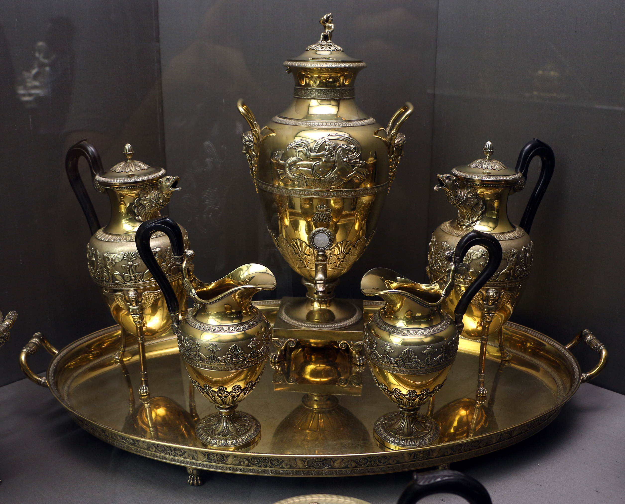 Silverware in the Calouste Gulbenkian Museum